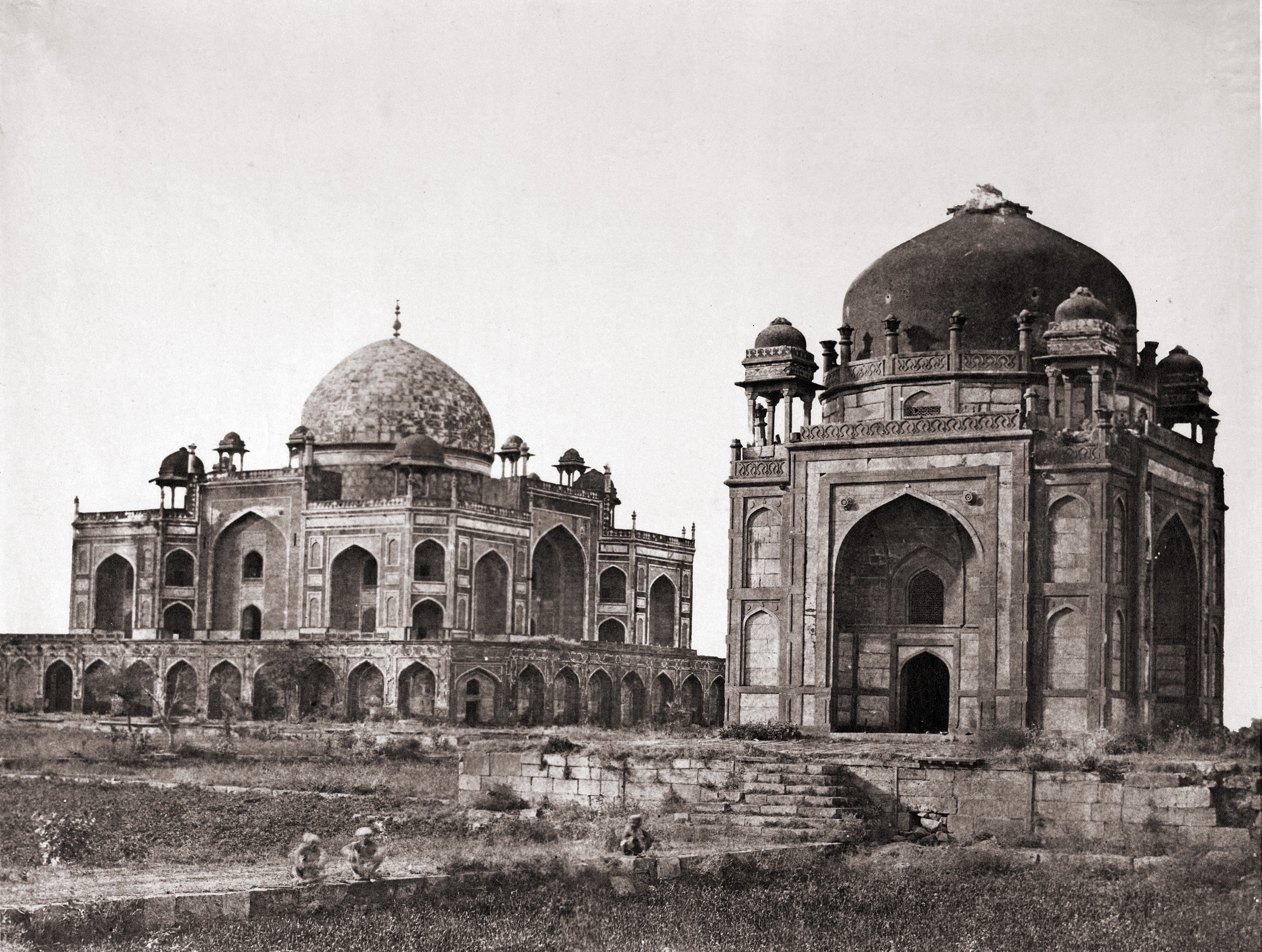 Humayun's Tomb, with the barber's Tomb (c.1590) in the foreground, Delhi, 1858 photograph by John Murray, (1809–1892) Scottish photographer and physician, active in India.